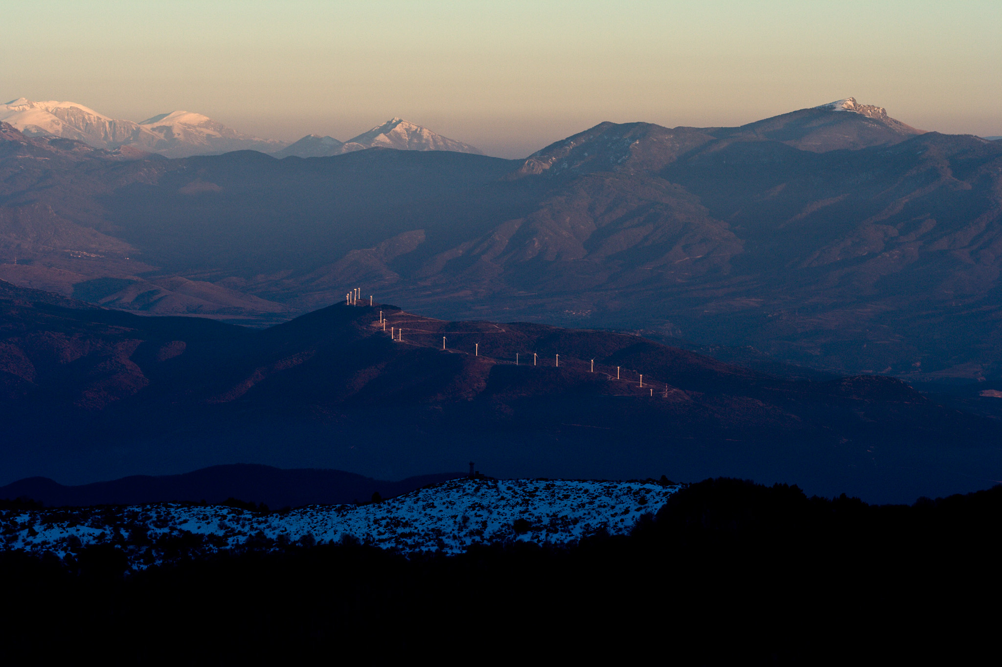 Chengel mountain, picture taken from Belasitsa mountain in Bulgaria.